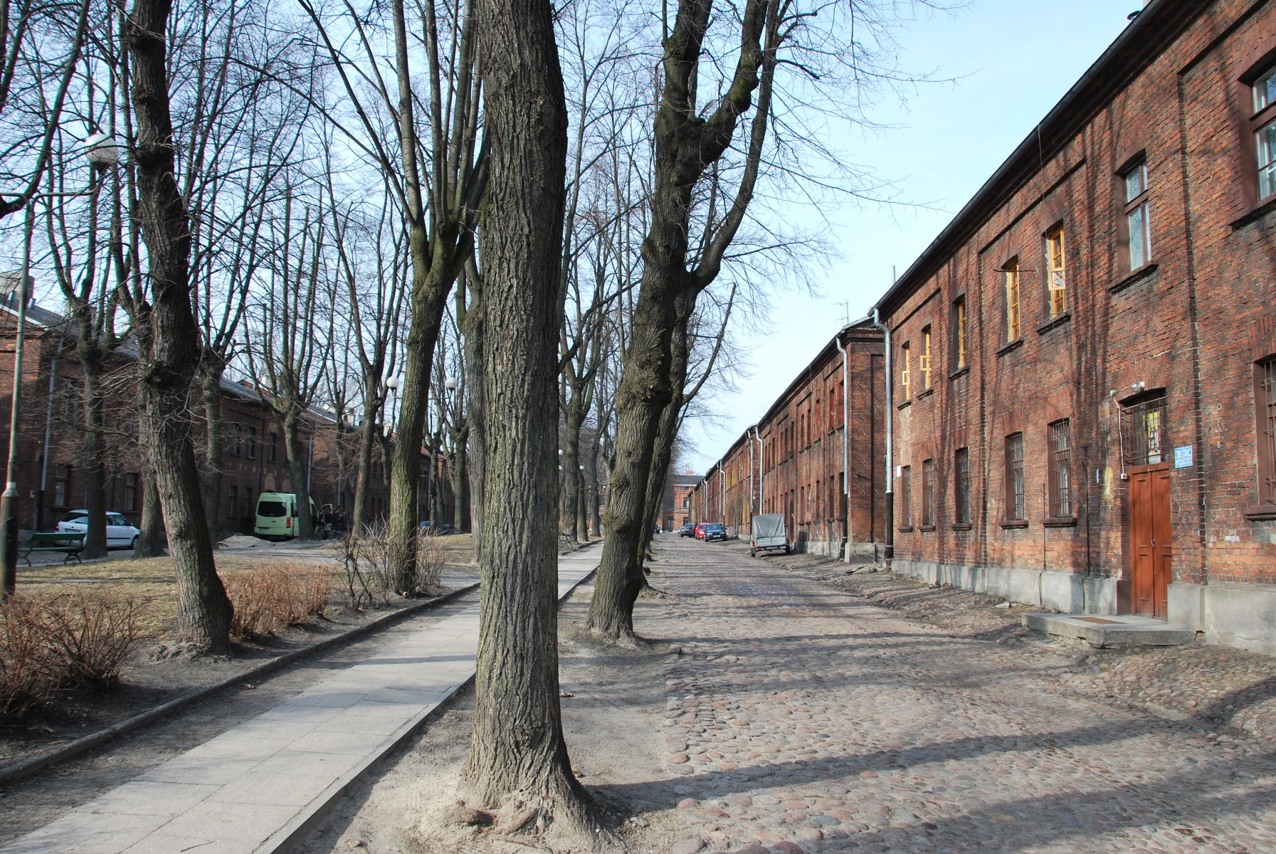 Księży Młyn Street, Łódź